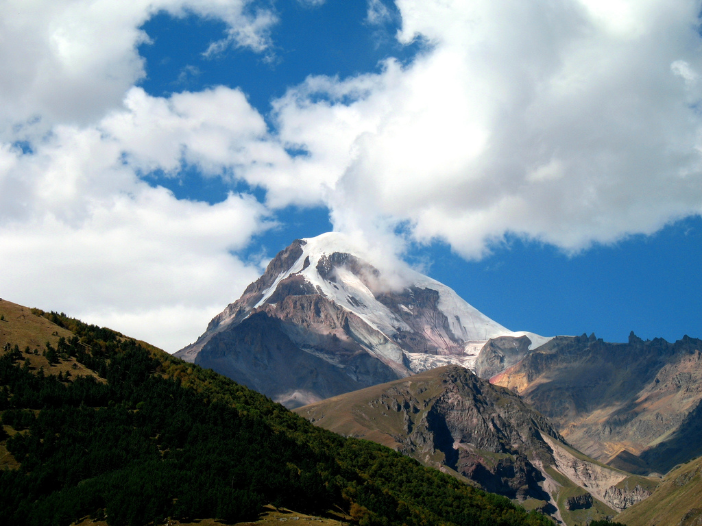 Kazbegi. Mount. Mkinvarcveri (Kazbek) 5047 m., Stefancminda district (ყაზბეგის რაიონი)